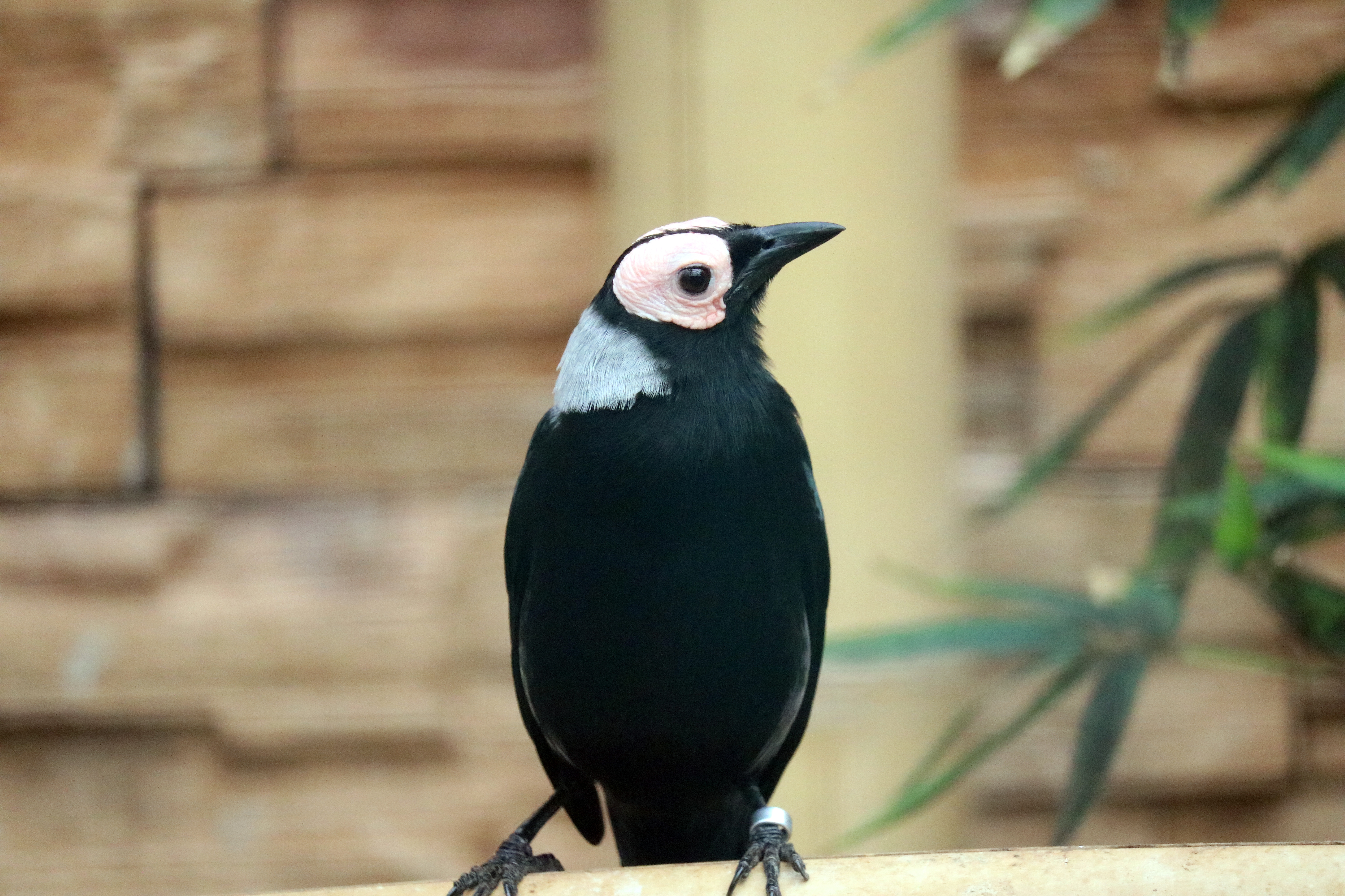 A captive coleto in Attica Park.